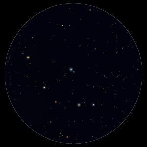 Alfa Delphini